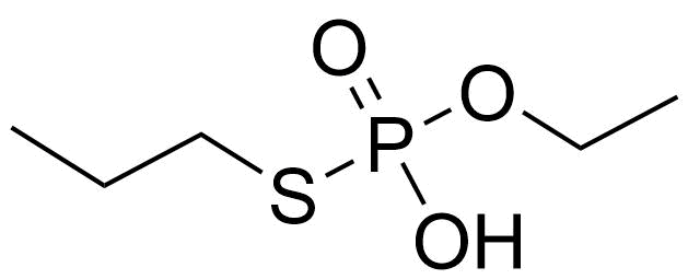 This is the structure of O-ethylS-propyl hydrogenphosphorothioate, also called EPPA, a major metabolite of the pesticide Ethoprophos.